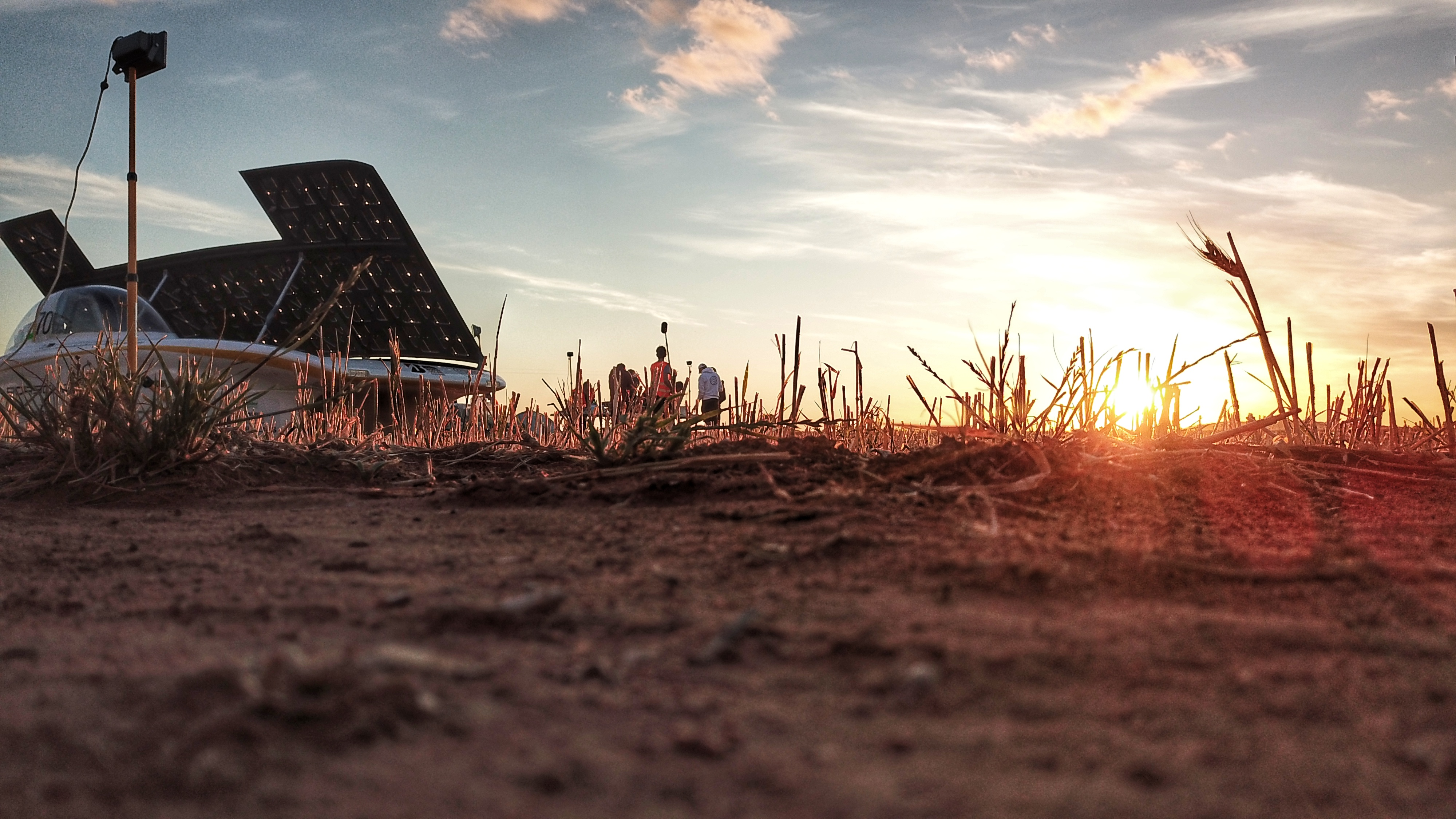 Sonnenwagen solar car using the last sun rays to recharge